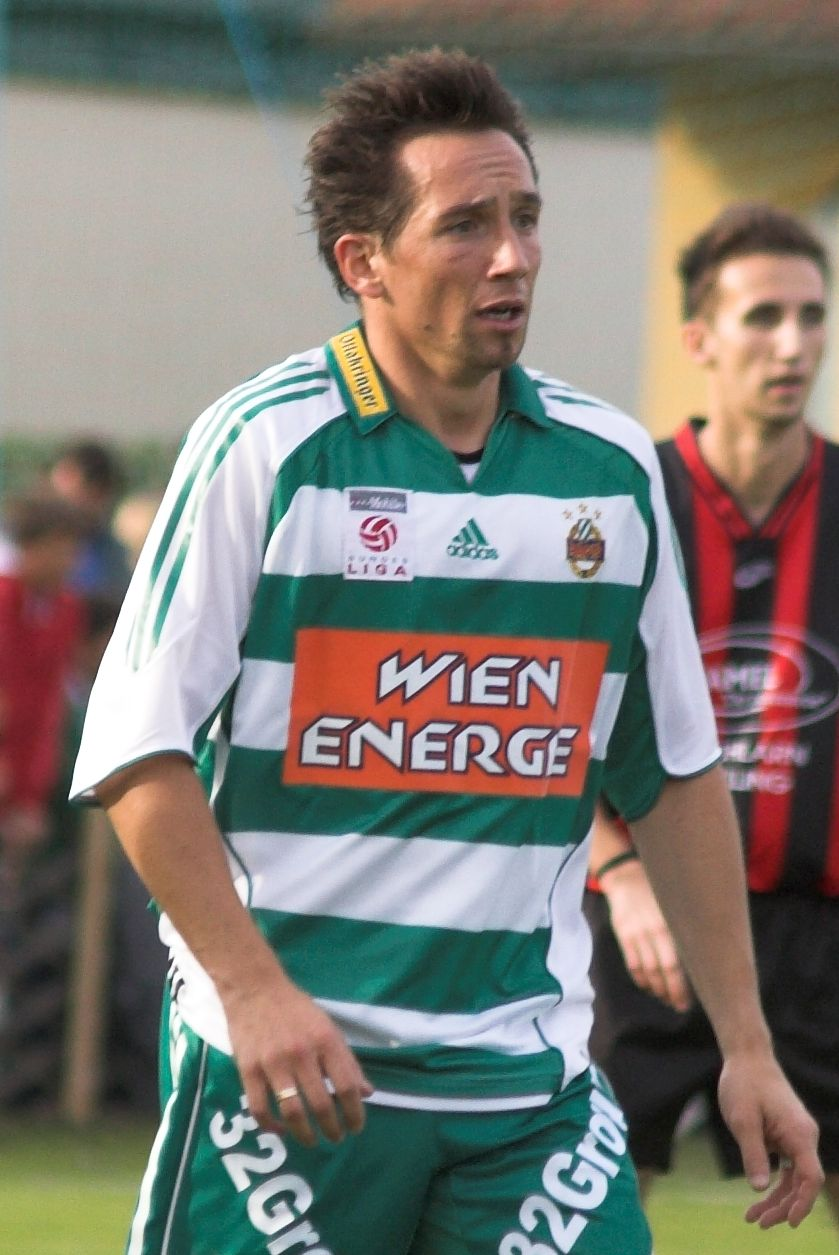 Matthias Dollinger, an austian football player